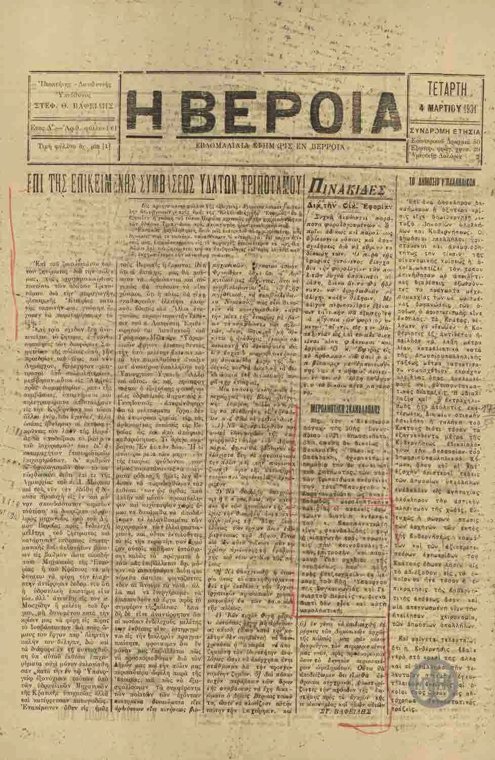 Veria Newspaper 4 March 1931